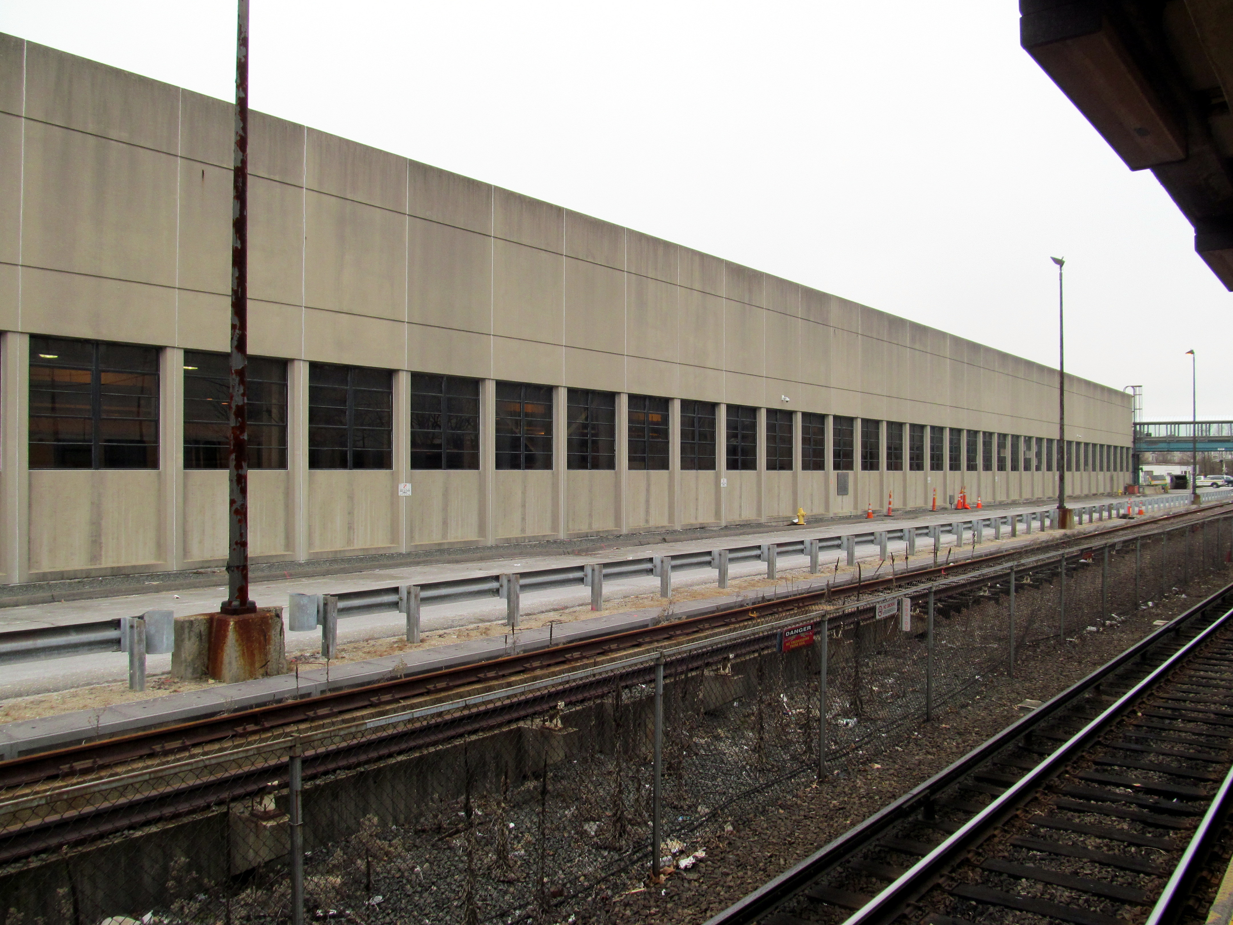 Wellington Carhouse, the primary repair facility for the MBTA Orange Line, viewed from the inbound platform at Wellington station